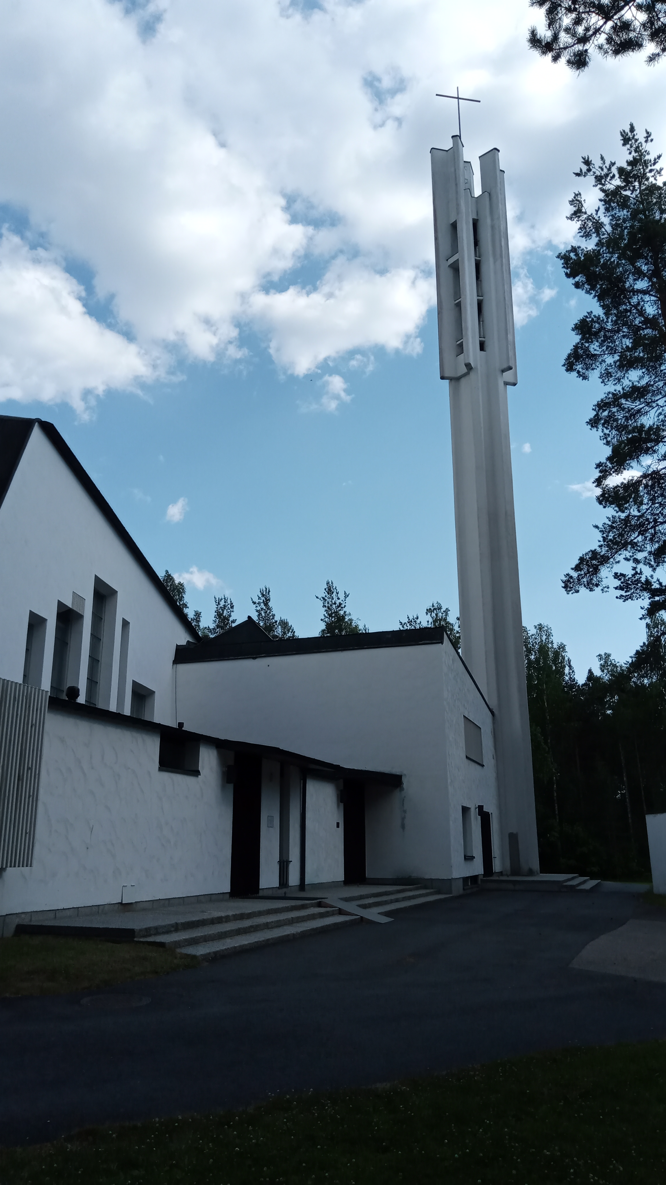 Church of the Three Crosses on 27 June 2020.